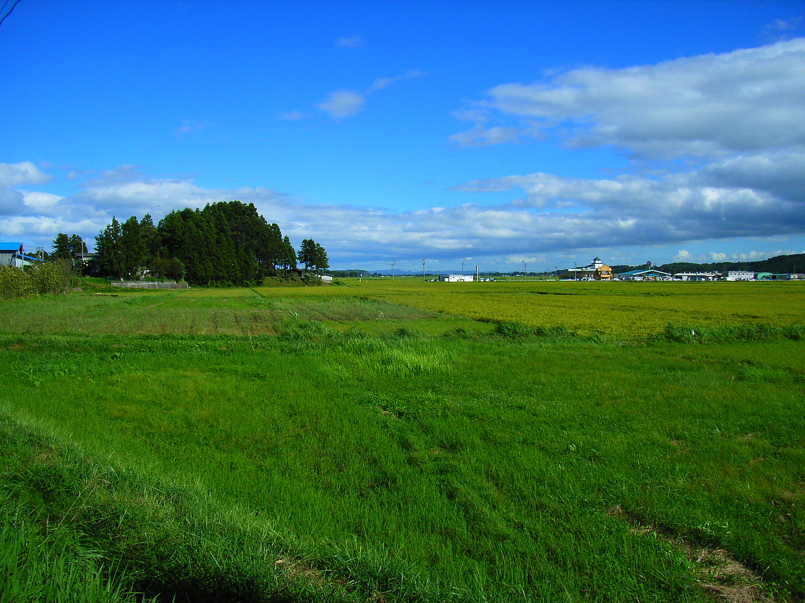 Field in Kurihara, Miyagi prefecture, Japan.